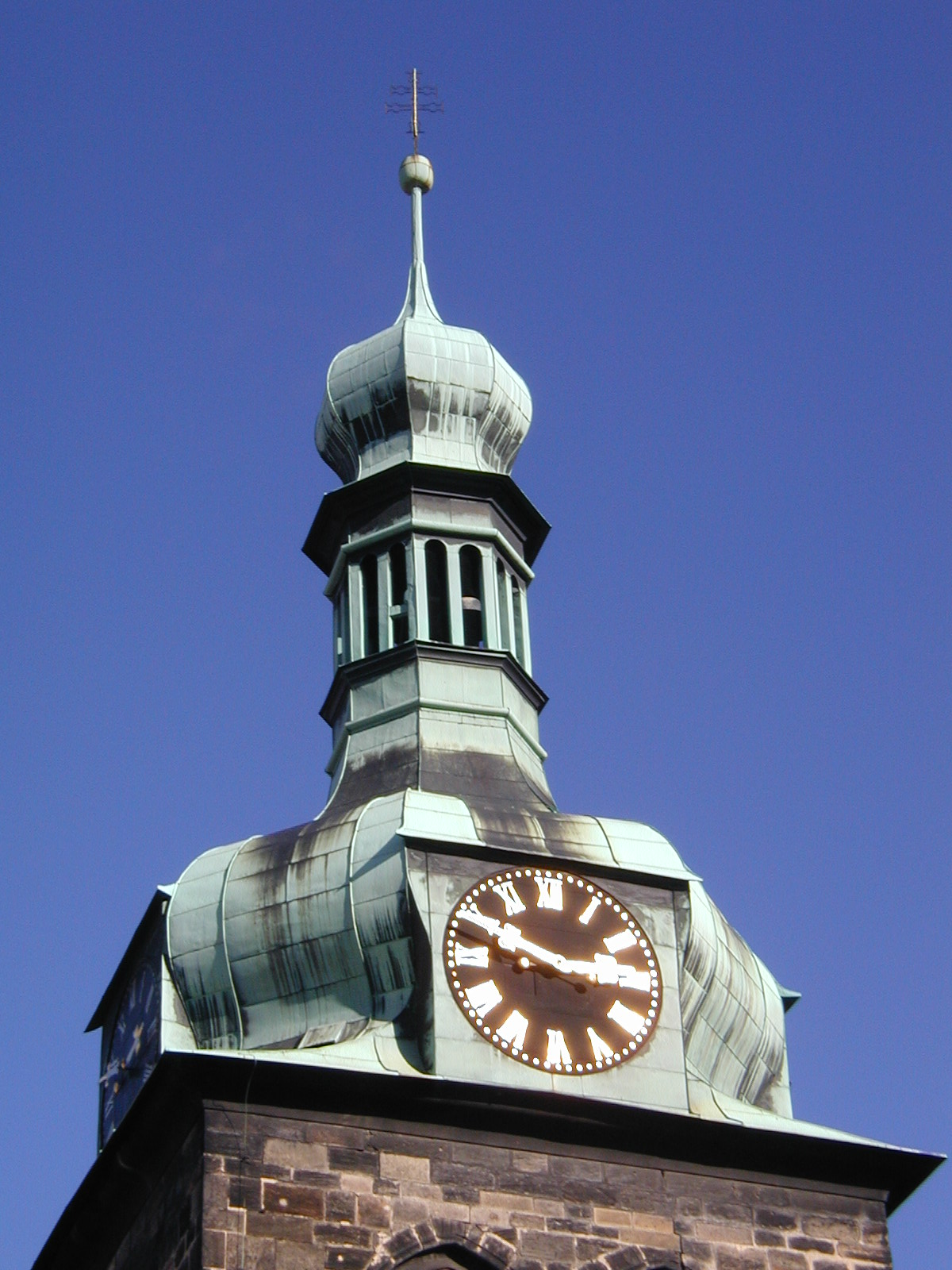 Roof of belltower of Saint Peter´s church in Prague, Střecha zvonice Kostela Sv. Petra na Poříčí v Praze